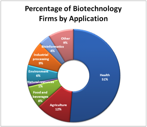 Pie chart showing percentages of biotechnology firms by application